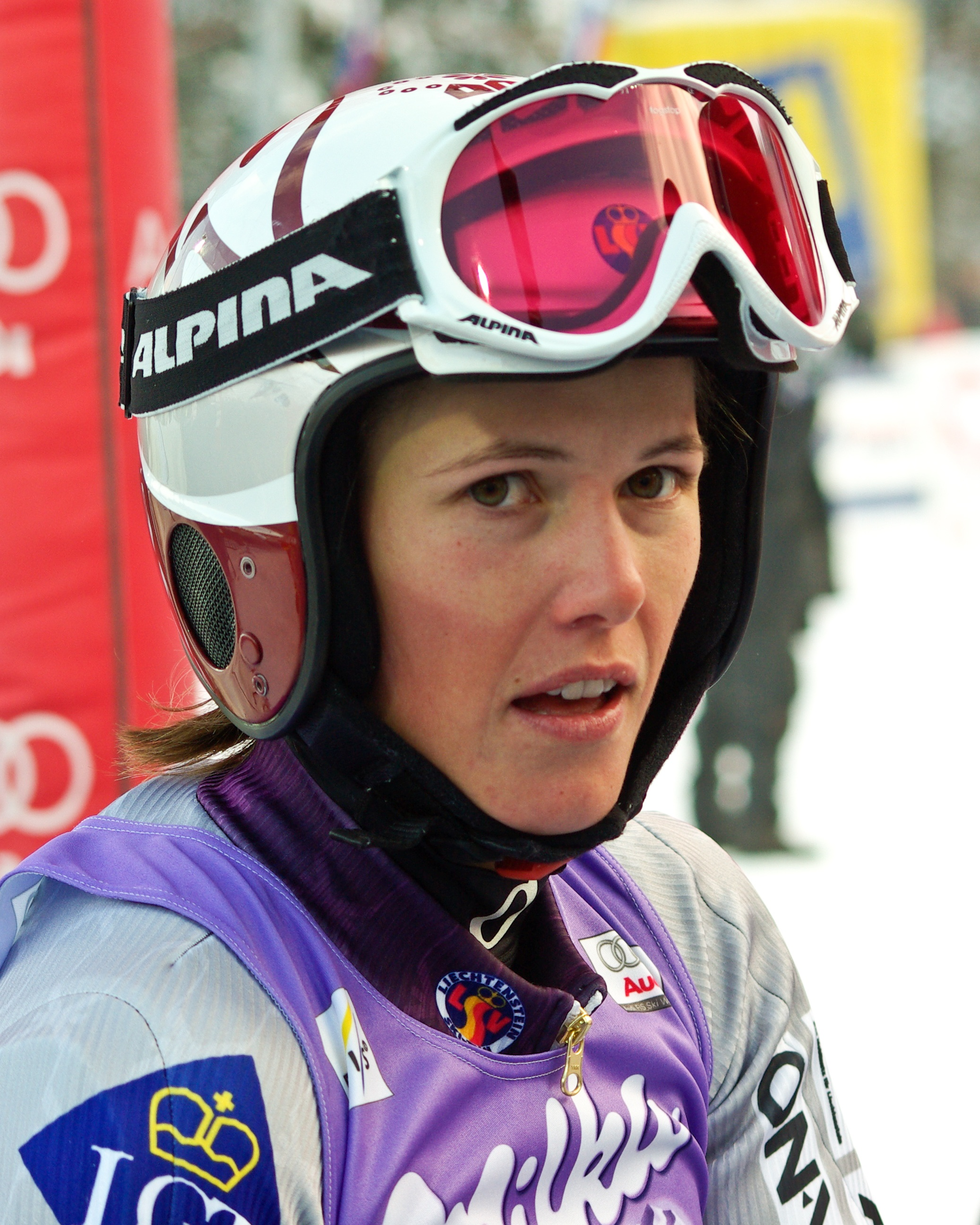 Liechtensteinian alpine skier Marina Nigg after the first run of the giant slalom in Semmering (Austria) on 28 December 2008.